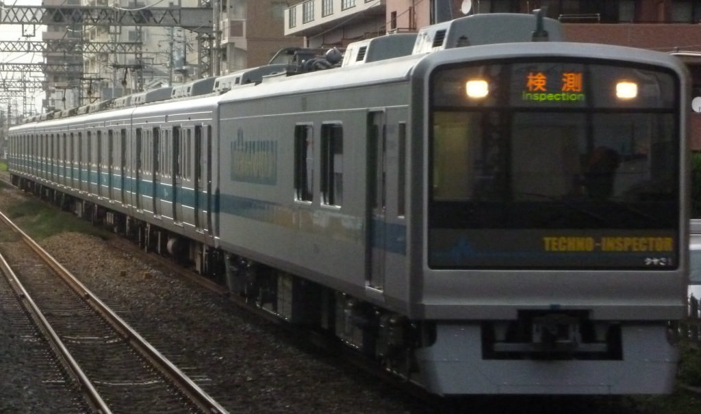 Odakyu Kuya 31 inspection car in operation